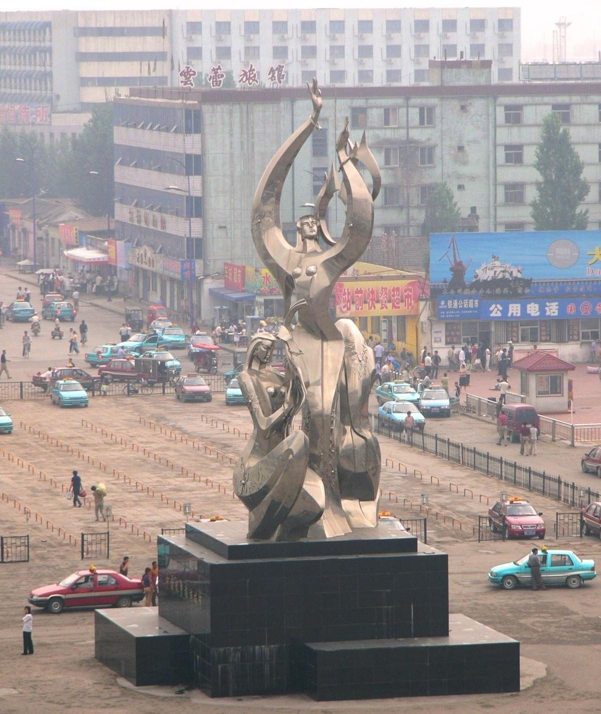 Datong, Shanxi, China